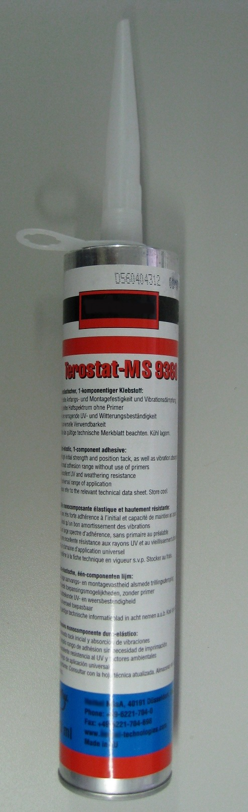 Adhesive (Terostat MS 9360 by Henkel Teroson) based on silane modified polyether. The 1-component sealant cures in the presence of humidity to an elastic product. In aluminium cartridge packaging (capacity: 310 ml). A plastic cannula is screwed. Application is made with an hand or air pressure pistol (high viscosity adhesive).